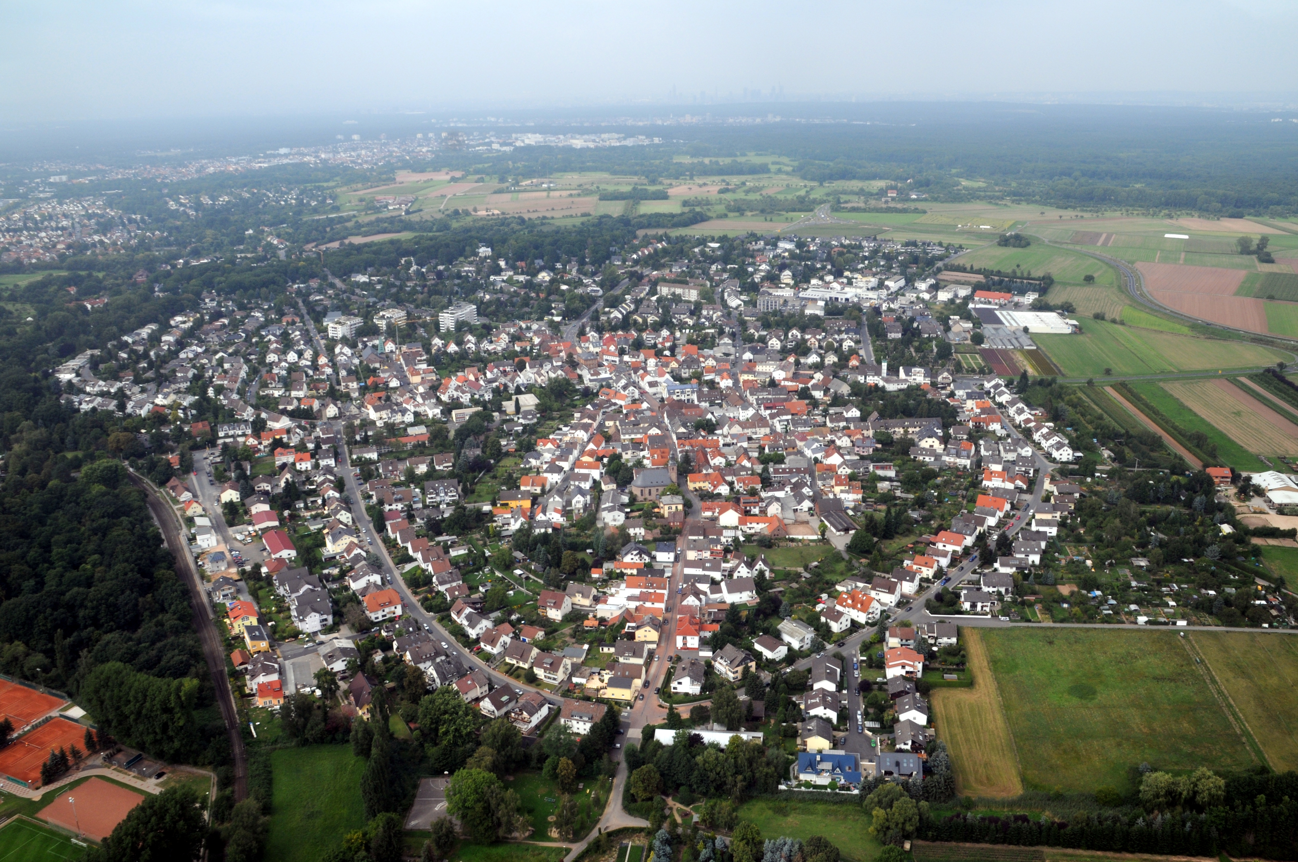 Götzenhain, Dreieich, Hesse, Germany, aerial photograph